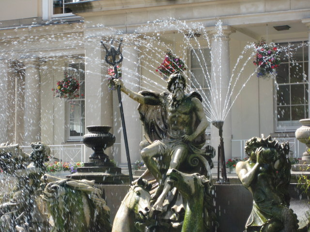 Neptune's Fountain, Cheltenham At the southern end of the Municipal Office Gardens on the Promenade in Cheltenham is Neptune's Fountain which was designed by Joseph Hall, and constructed by R.L. Boulton and Sons in 1892-3. The statue shows Neptune, the god of water, holding a trident as a symbol of his power over the sea. The fountain draws water from the River Chelt which flows below the fountain through a large culvert.